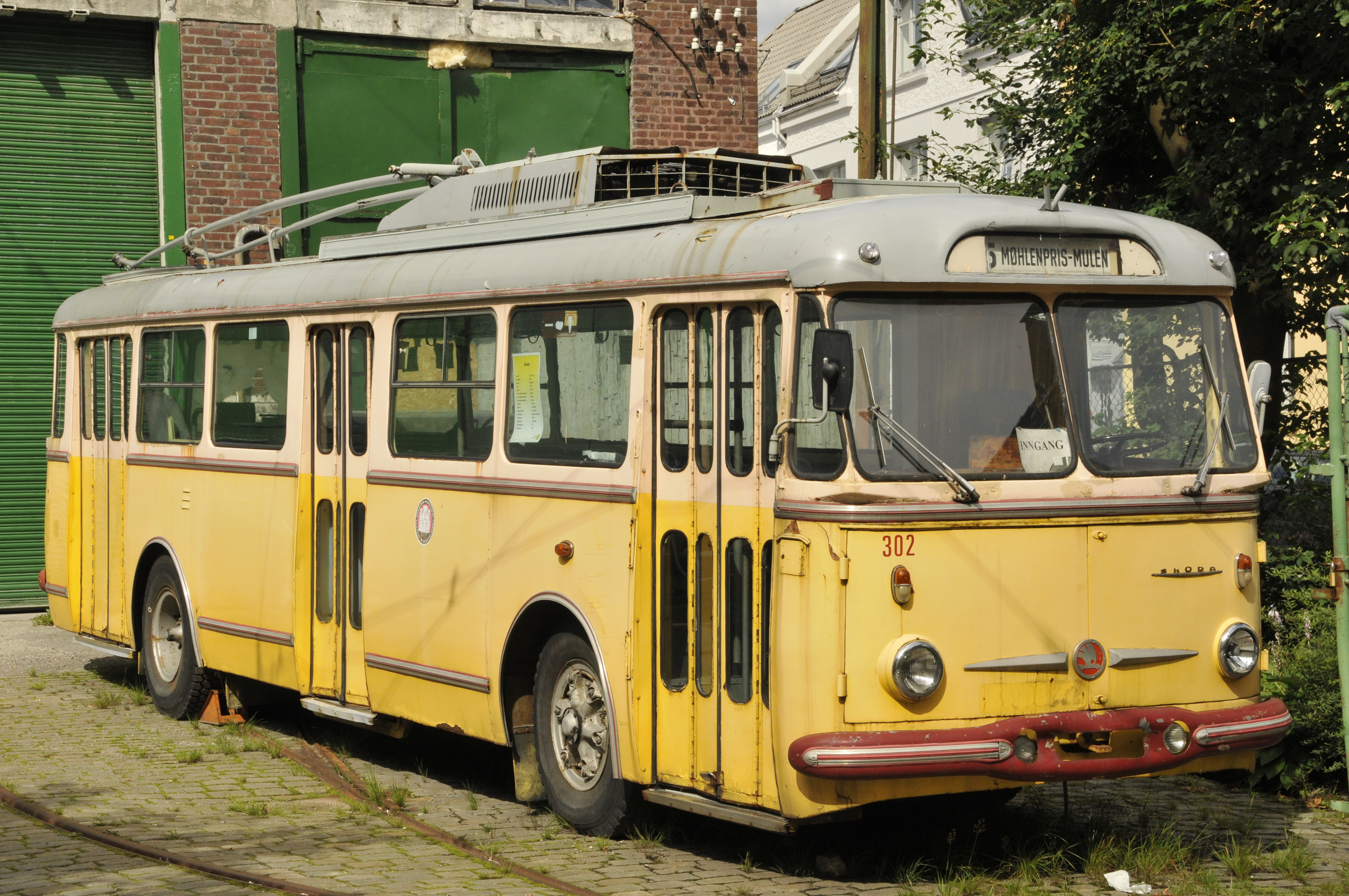 Ca 1972 Skoda 9tr trolleybus outside Bergen Technical Museum ( possible awaiting restoration. The Skoda 9Tr trolleybus was delivered to 66 cities worldwide from 1961-82, among them the city of Bergen, Norway who bought these simple and very inexpensive models after the bus company was "forced" to continue a trolley service. 20 Skoda 9Tr buses were delivered in January 1973 and according to the story tells that they were ready for the museum from the day they arrived ... But the buses soldiered on until 1986, and even though they actually were less advanced than the models the replaced, the sturdy Skodas almost became loved by the citizens of Bergen. The town still operates one trolley line - disliked by many politicians because of the high running costs and loved by local patriots and environmentalists alike.